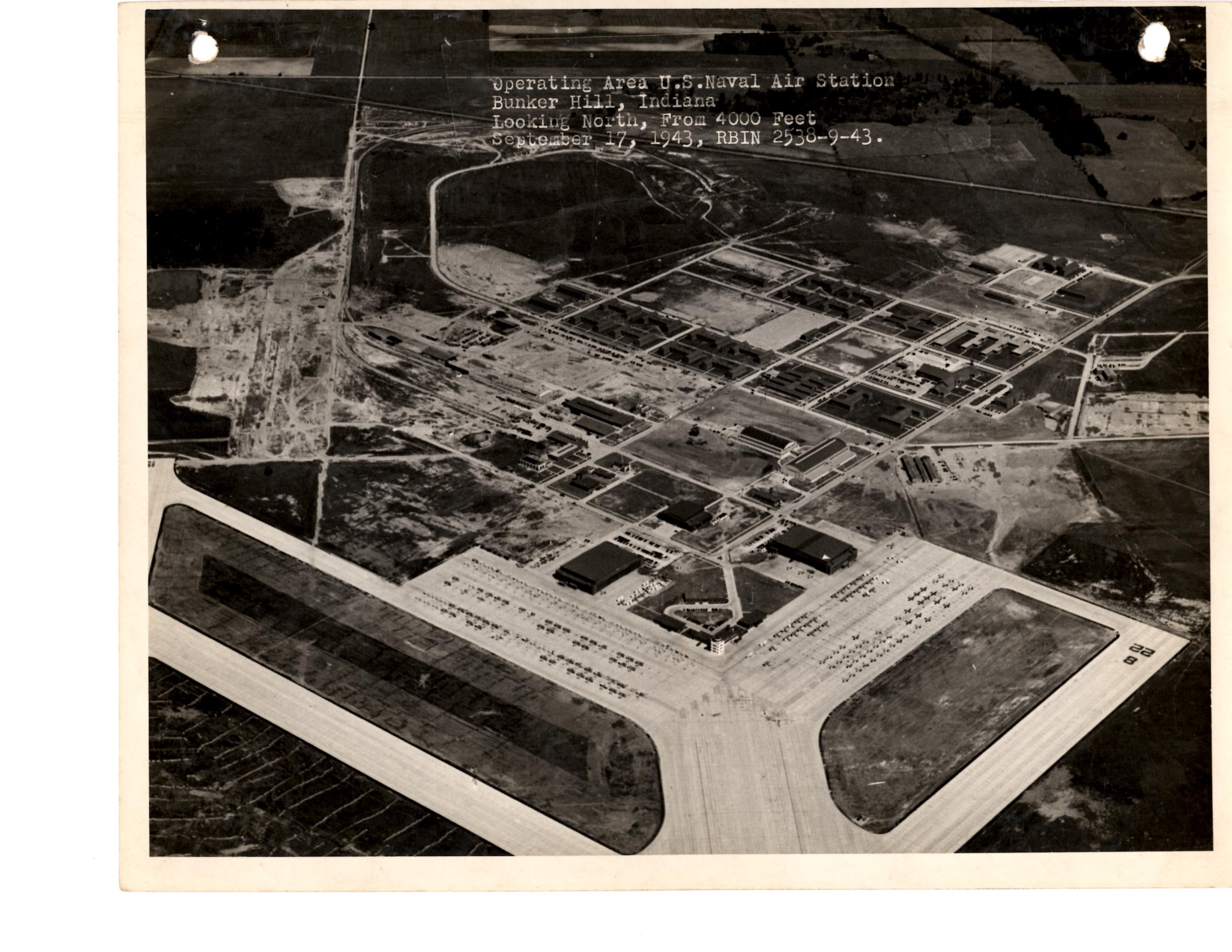 USNAS Bunker Hill Looking North 4000ft 9-17-1943